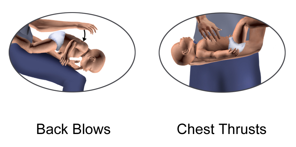 An illustration depicting the Heimlich maneuver on an infant.